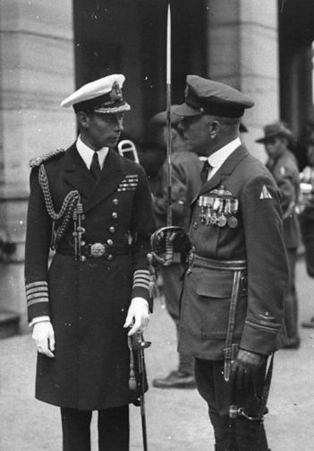 Portrait of Prince Albert, Duke of York (later King George VI) (left) speaking with Geoffrey Forrest Hughes, President of the Aero Club of New South Wales and a former officer in the Royal Air Force who achieved flying ace status during the First World War. Photograph was taken during the Prince's royal tour of Australia in 1927 in which he officially opened the new Federal Parliament building.